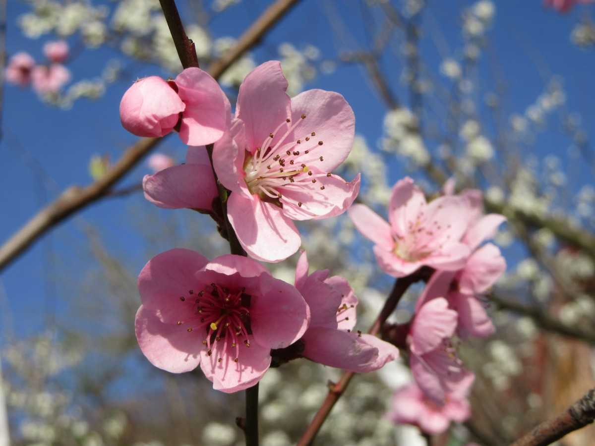 Up-close pink Cherry Blossoms